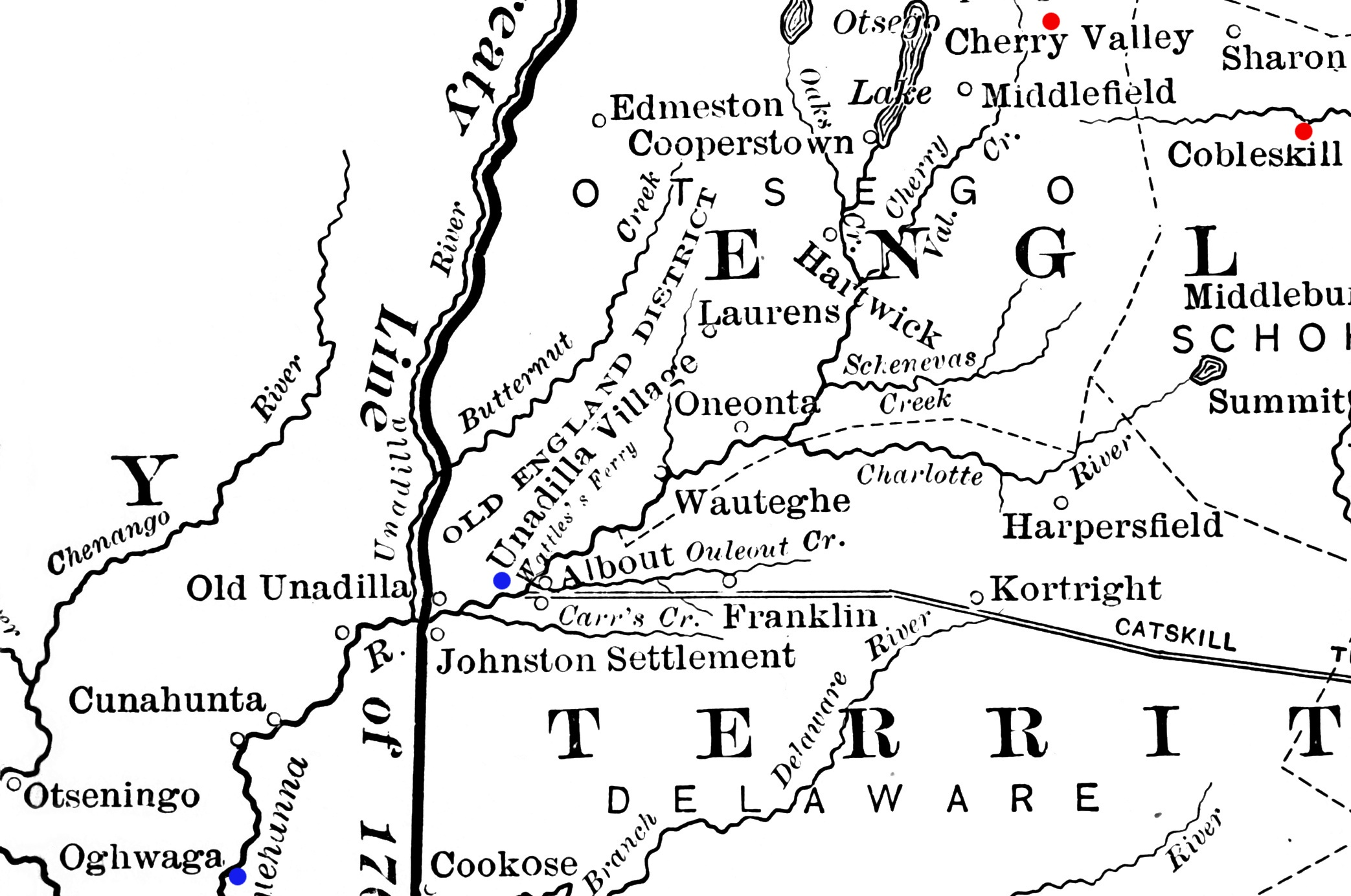 Detail from a map showing a portion of New York's western frontier with the Iroquois. The New York communities of Cherry Valley and Cobleskill, the scenes of military actions in the American Revolutionary War in 1778, are highlighted in red. The Indian villages of Unadilla and Unaquaga (spelled "Oghwaga" on the map), which were destroyed in raids in 1778, are highlighted in blue.